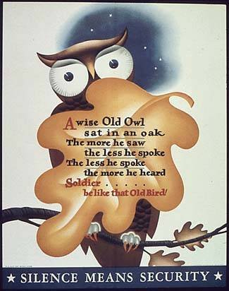 A poster using the proverb of "A Wise Old Owl", produced 1941-5